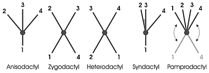 Bird feet - toe arrangement (dactyly, right foot): anisodactyl, zygodactyl, heterodactyl, syndactyl and pamprodactyl